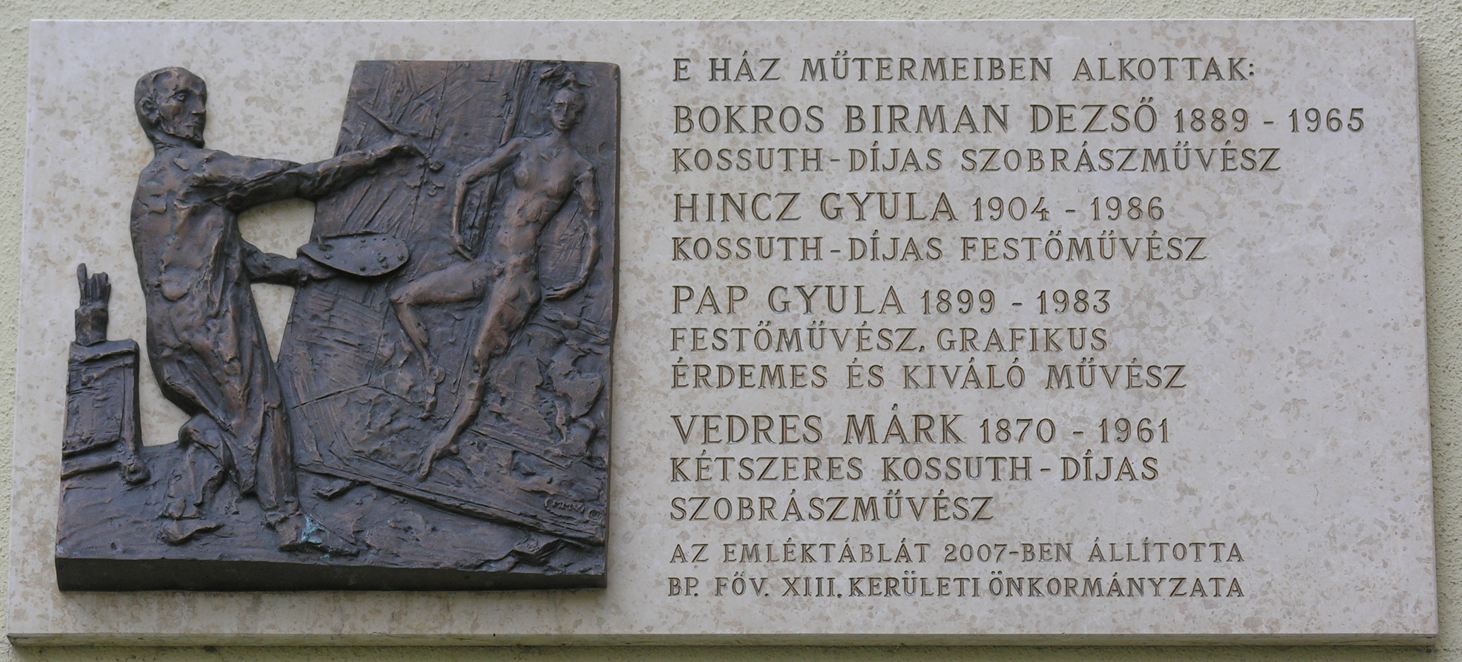 Commemorative plaque of Dezső Bokros Birman, Gyula Hincz, Gyula Pap and Márk Vedres in Budapest District XIII, Bulcsú Street No 18-20